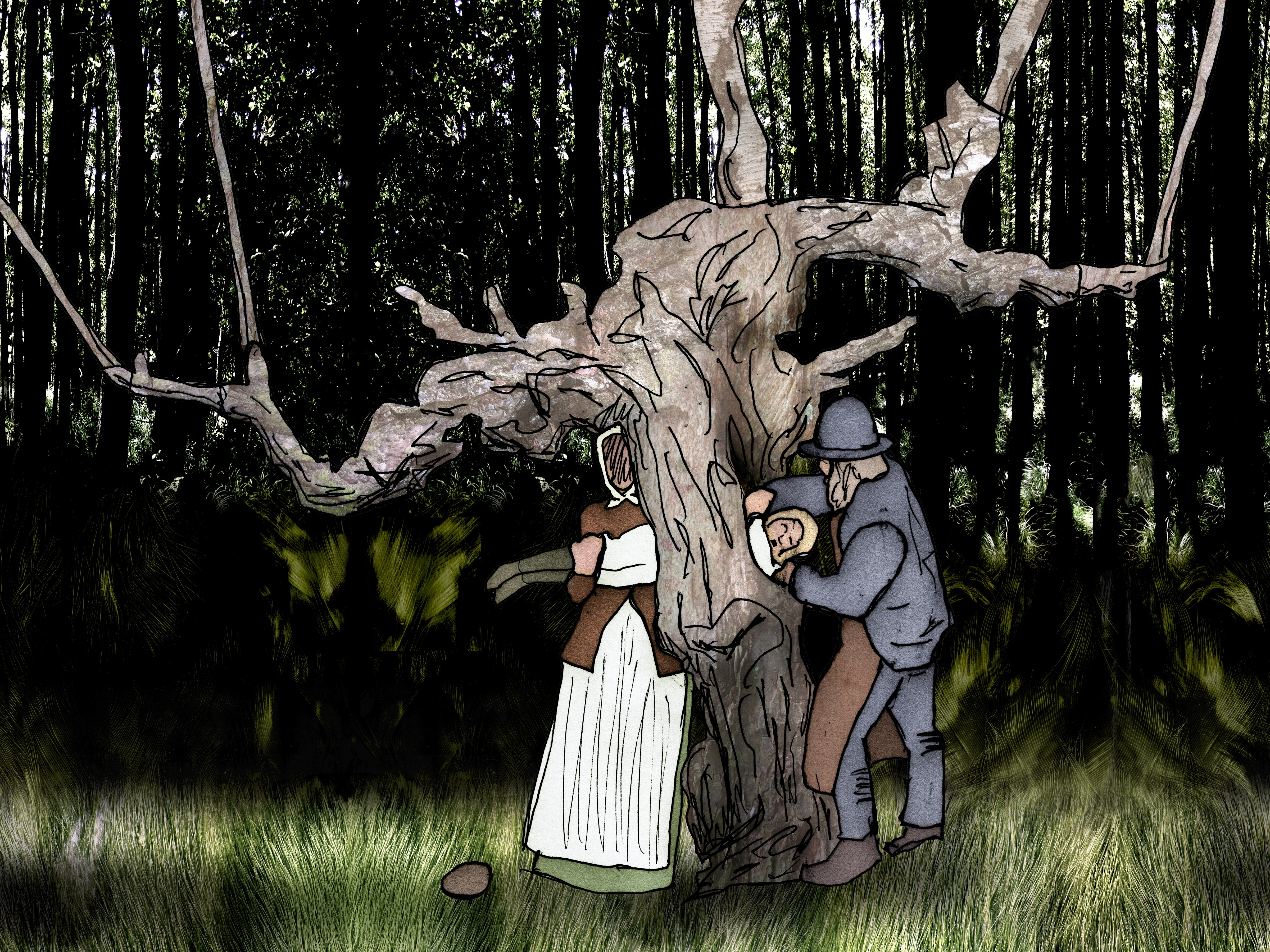 In Swedish folklore a child was pulled through an hole in a tree to cure rickets.